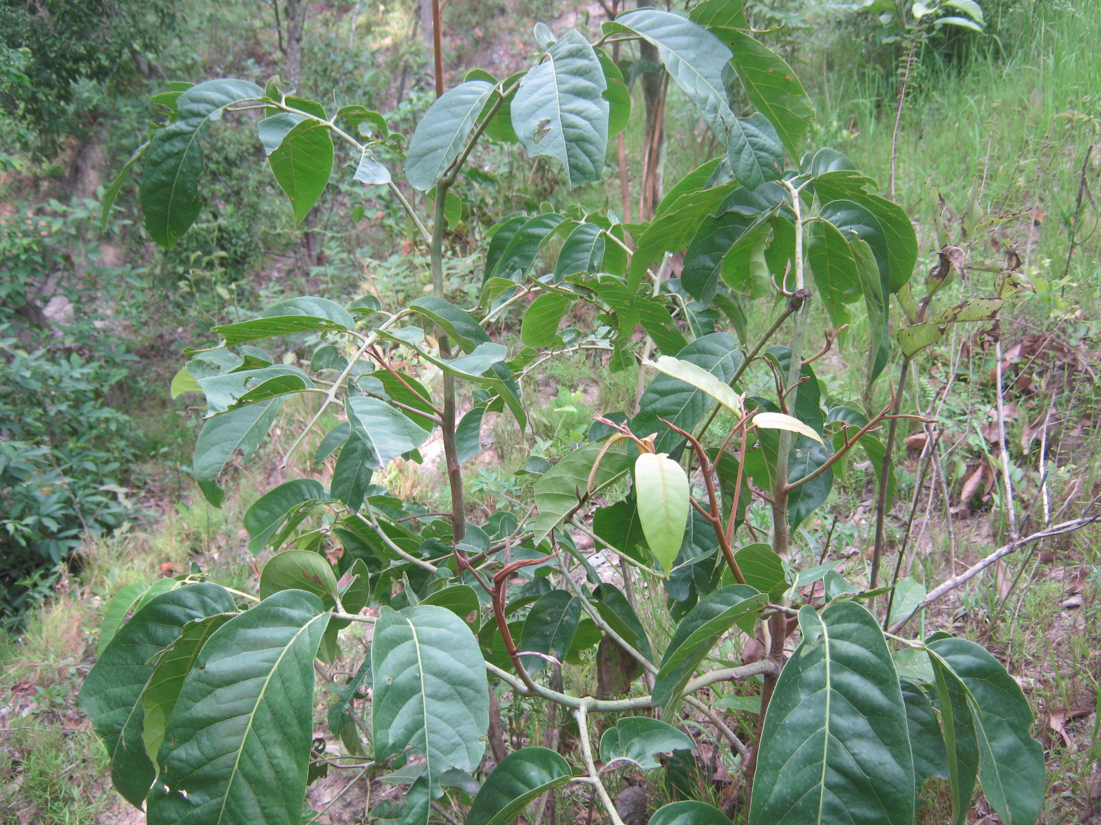 Madhuca longifolia plant found in Panchkhal valley.